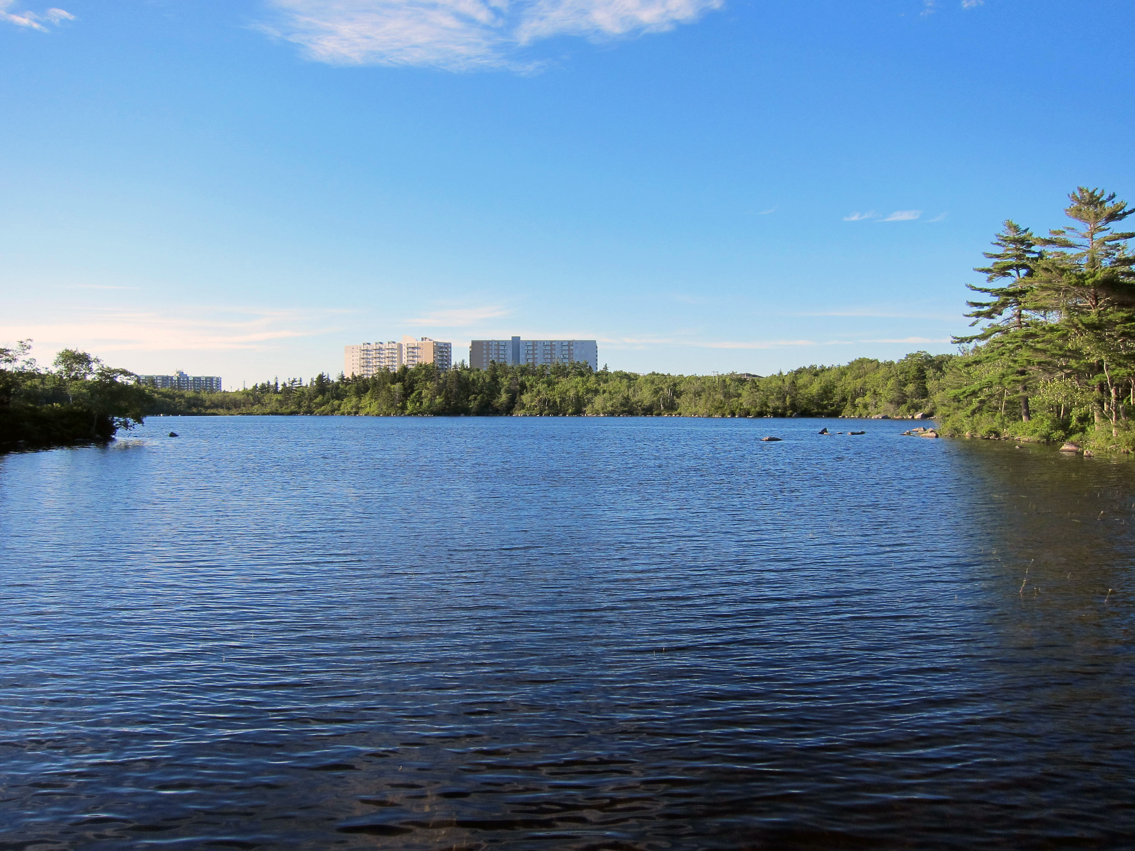 Witherod Lake, Long Lake Provincial Park, Halifax, Nova Scotia, Canada. Facing north from south side of lake.